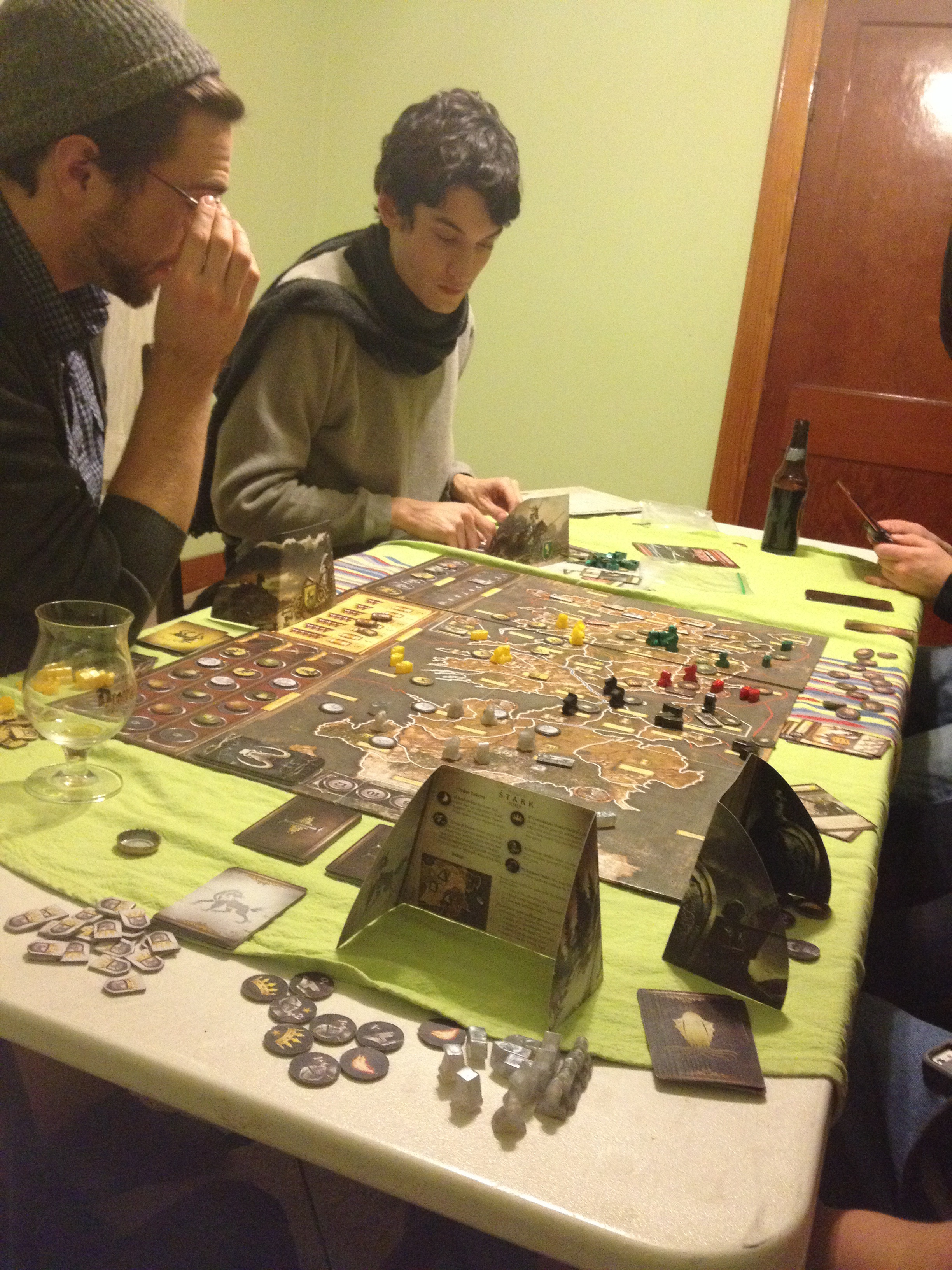 Playing Game of Thrones board game Playing Game of Thrones board game